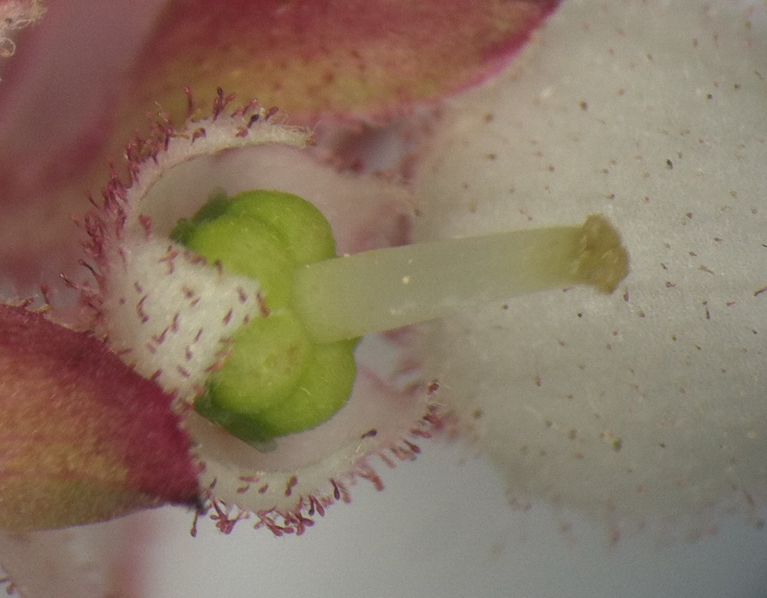 Close-up of a salal flower with most of the petals removed, revealing interior of the flower.